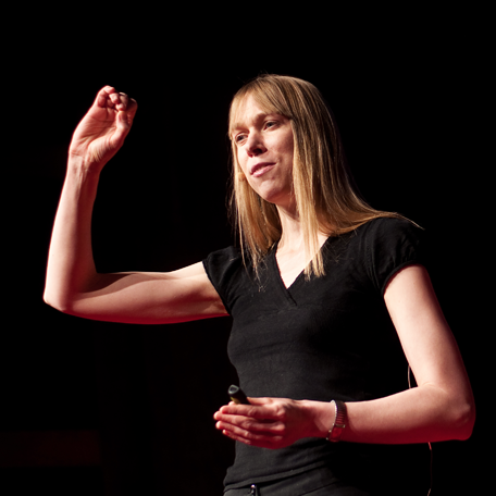 Catherine Heymans 21st February 2014, Pleasance Theatre Edinburgh